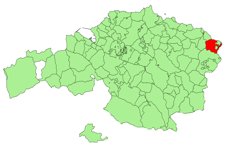 Berriatua municipality in the province of Biscay